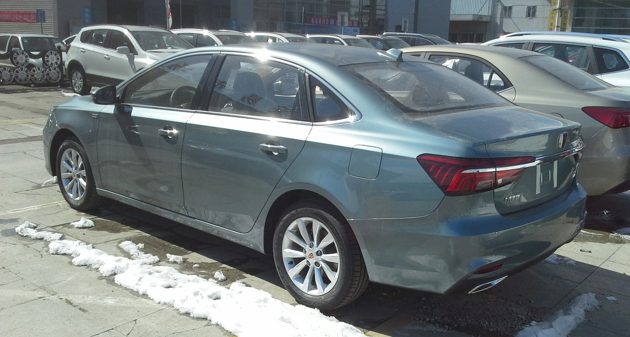 Roewe i6 photographed in Hohhot, Inner Mongolia province, China.